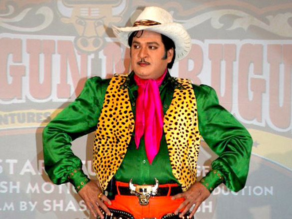 Rajendra Prasad at the audio launch event of the 2009 Indian film Quick Gun Murugun. He attended the audio launch sporting his look from the film.